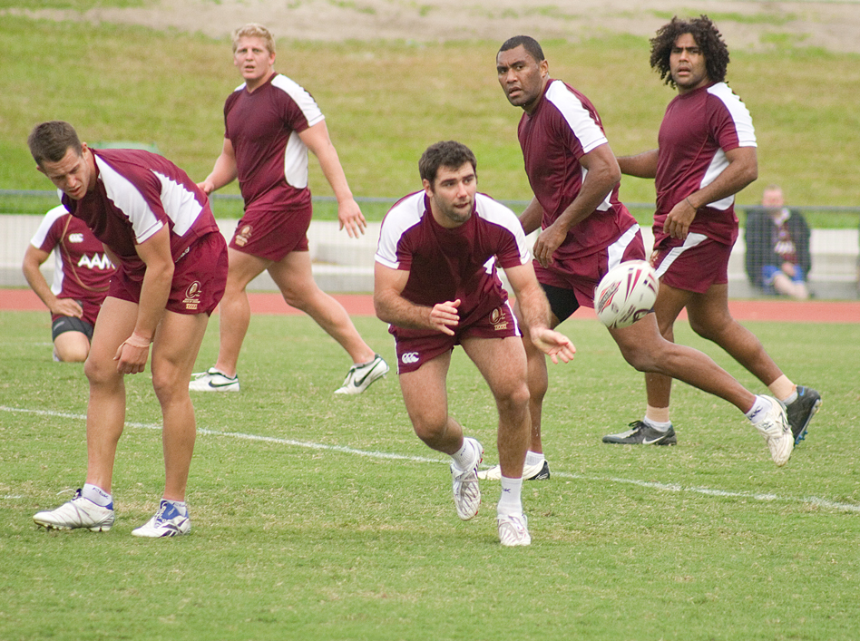 Cameron Smith and members of the Queensland State of Origin Team training in Cairns, Australia.